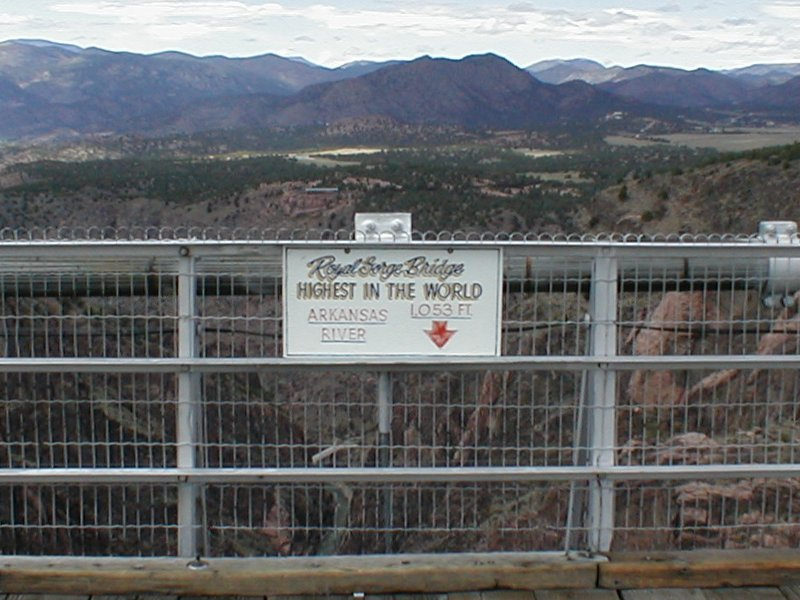 Sign on the Royal Gorge Bridge showing its height